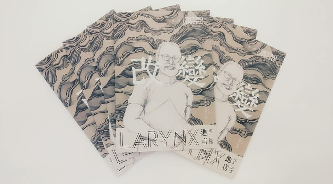 "Larynx Vol.35 by Student Council Publication Department, Collegium (2016-2017)"